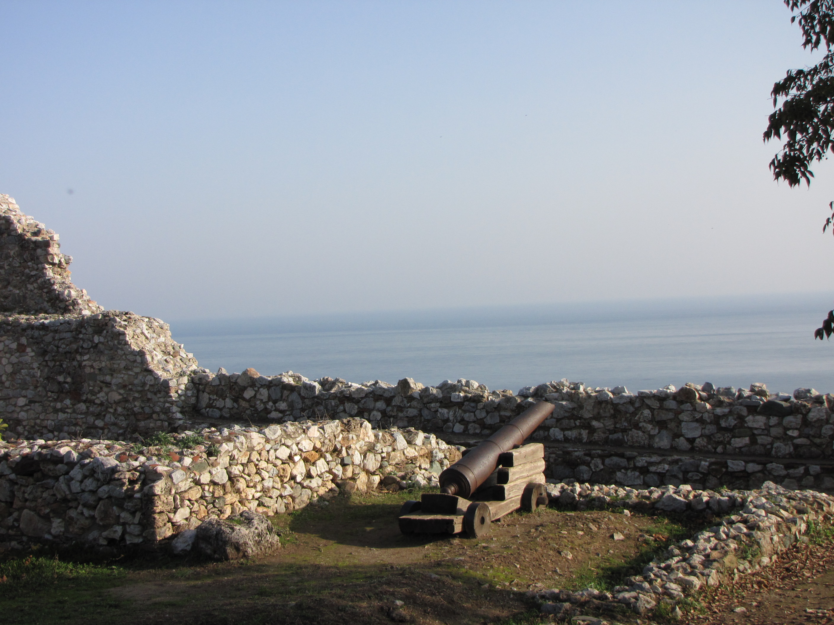 Canon at Platamonas Castle